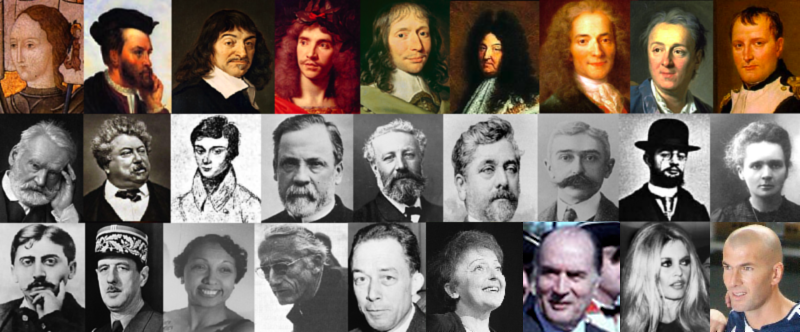 Collage of photos of 26 French known figures by order of birth – Joan of Arc – 1412, Jacques Cartier – 1491, René Descartes – 1596, Molière – 1622, Blaise Pascal – 1623, Louis XIV of France – 1638, Voltaire – 1694, Denis Diderot – 1713, Napoleon I of France – 1769, Victor Hugo – 1802, Alexandre Dumas, père – 1802, Évariste Galois – 1811, Louis Pasteur – 1822, Jules Verne – 1828, Gustave Eiffel – 1832, Pierre de Coubertin – 1863, Henri de Toulouse-Lautrec – 1864, Marie Curie – 1867, Marcel Proust – 1871, Charles de Gaulle – 1890, Josephine Baker – 1906, Jacques-Yves Cousteau – 1910, Albert Camus – 1913, Édith Piaf – 1915, François Mitterrand – 1916, Brigitte Bardot – 1934, Zinedine Zidane – 1972.